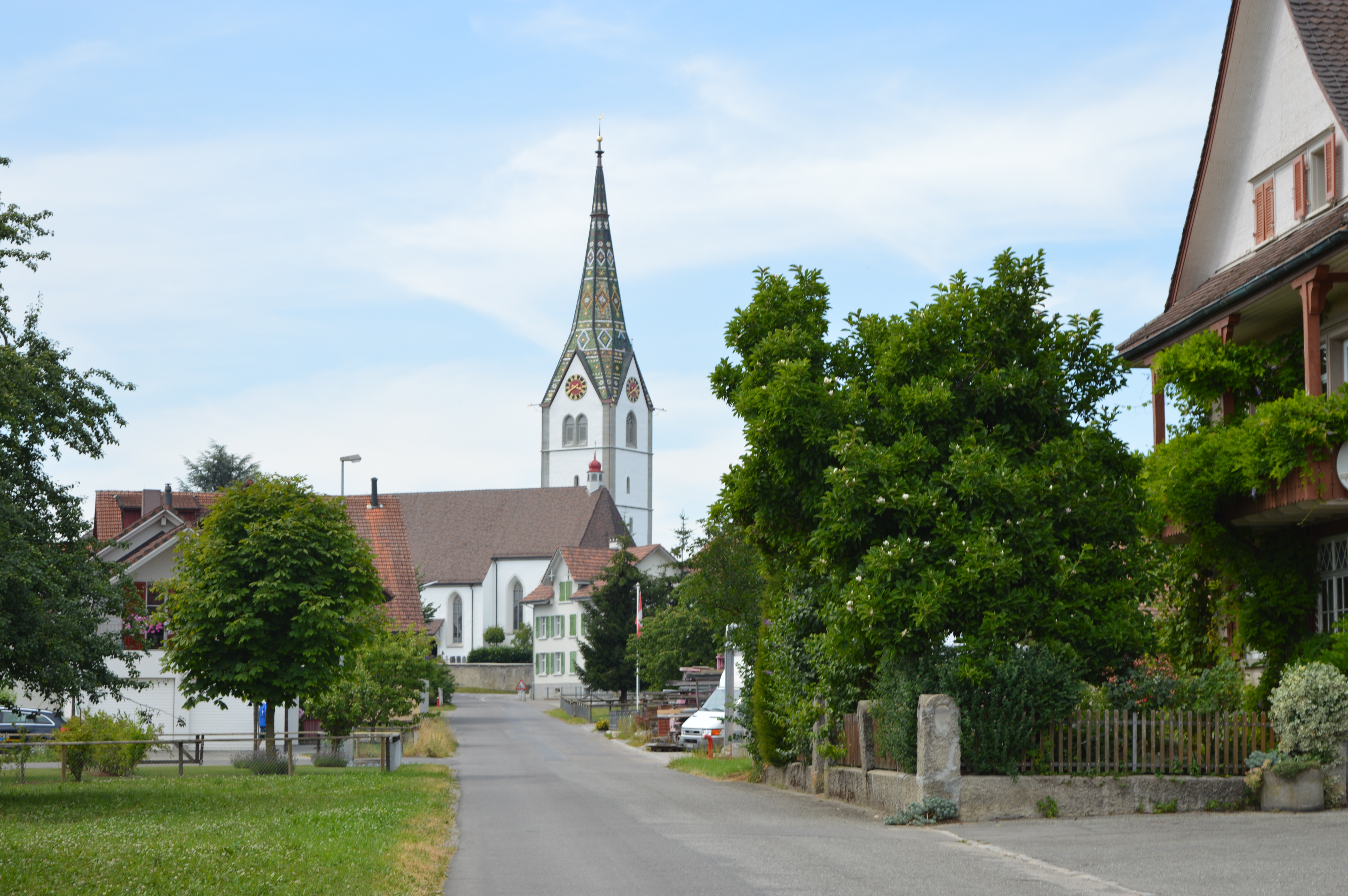 Church Sommeri, canton of Thurgovia, Switzerland